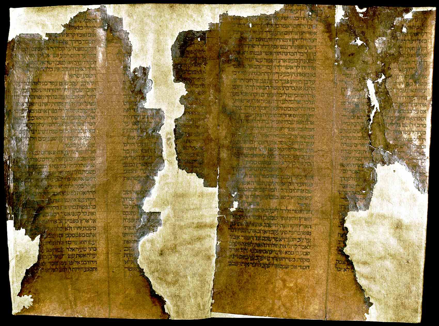 Fragment of a Torah Scroll, 13th century?, found in the Cairo Genizah (MS. Heb. a. 4)